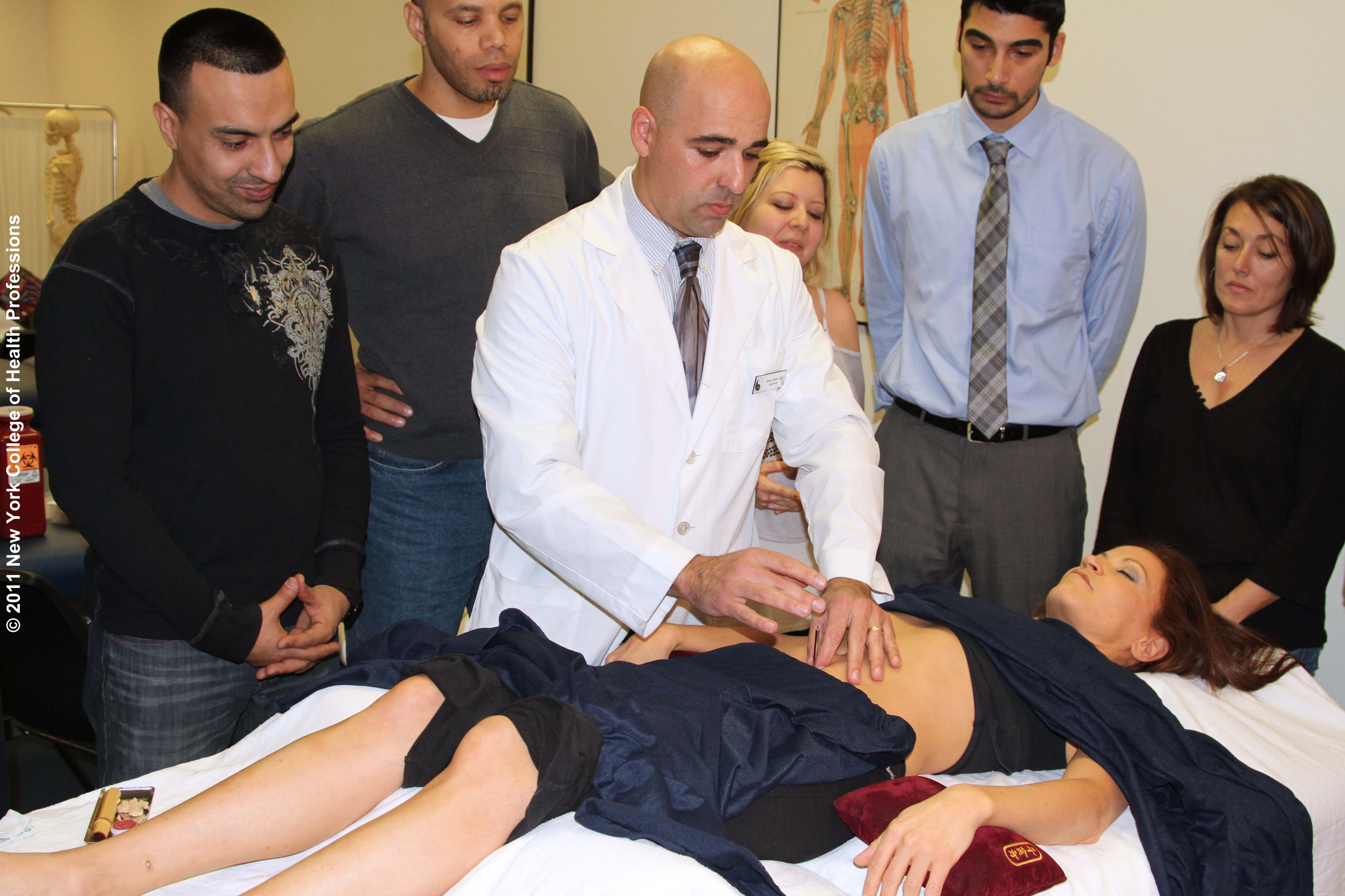 A New York College of Health Profession's Japanese Medicine class engaged in the demonstration of an acupuncture procedure. The photo shows an instructor, five students and one person assuming the role of a patient.